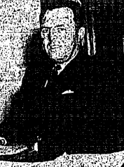 Michael Turner, General Manager, HSBC